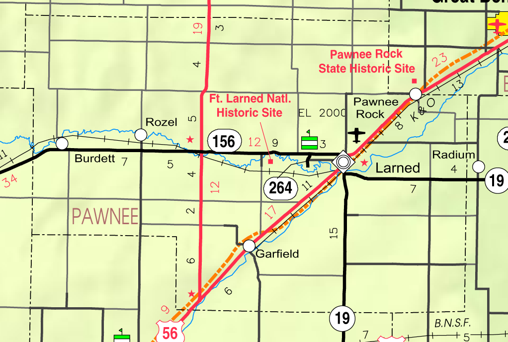 This map of Pawnee County, Kansas, USA, is copied at a resolution of 300 pixels/inch from the original PDF file.